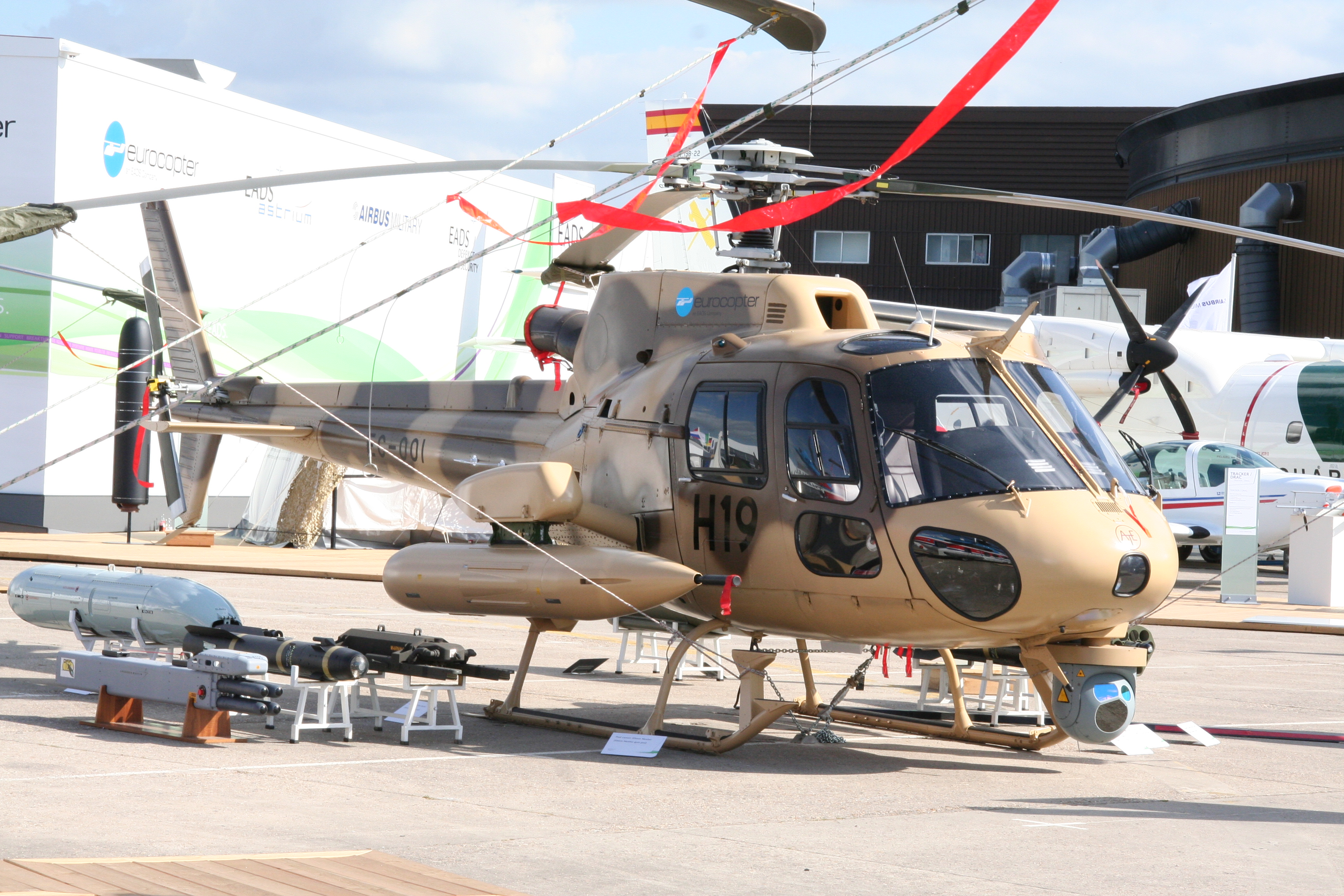 Eurocopter AS550 C3 Fennec - Paris Air Show 2009